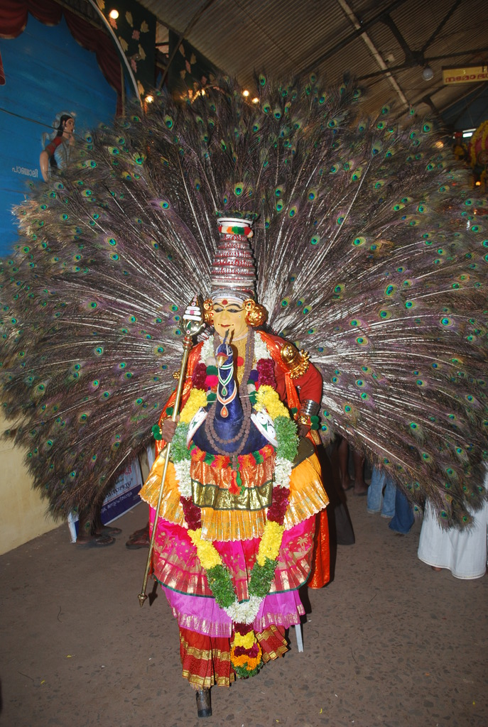 Mayilattam, a kind of folk dance found in Tamilnadu and Kerala